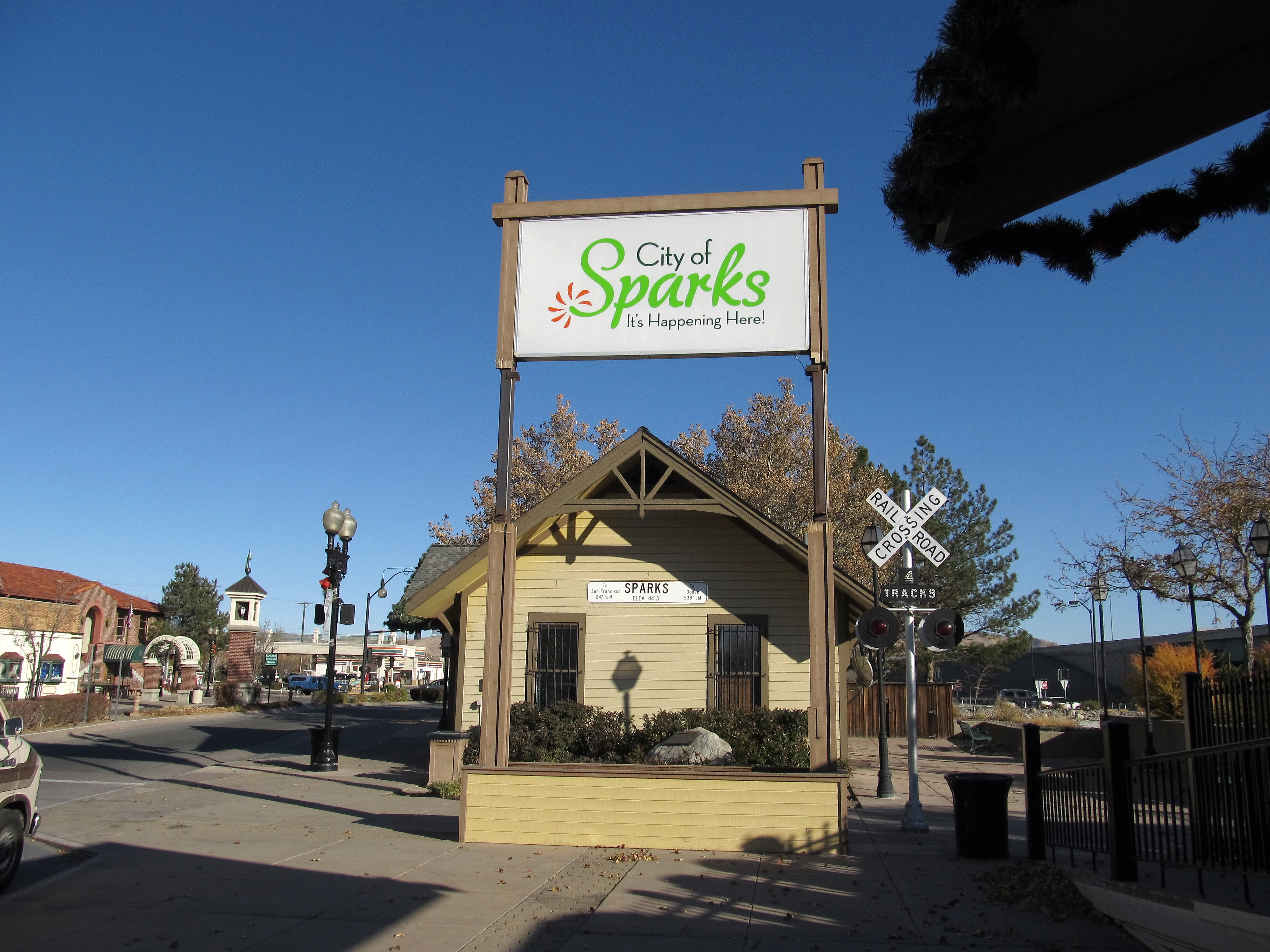 Victorian Square, Sparks, Nevada